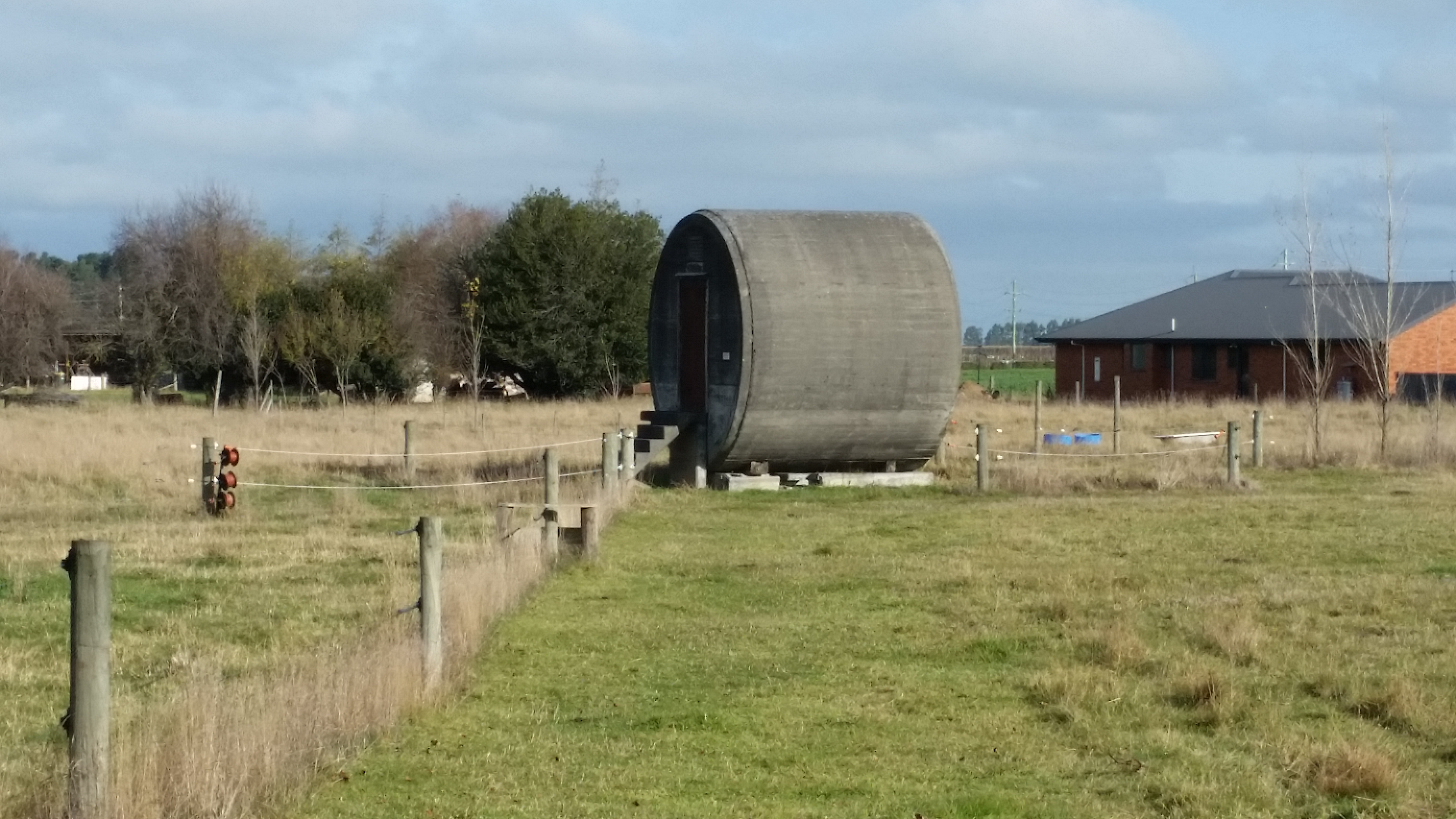 This image forms part of a series showing aspects of the canal and associated structures that were constructed to divert water from the Rangitata river for irrigation and power generation purposes. The canal terminates at the Highbank power station which releases the water into the Rakaia river.